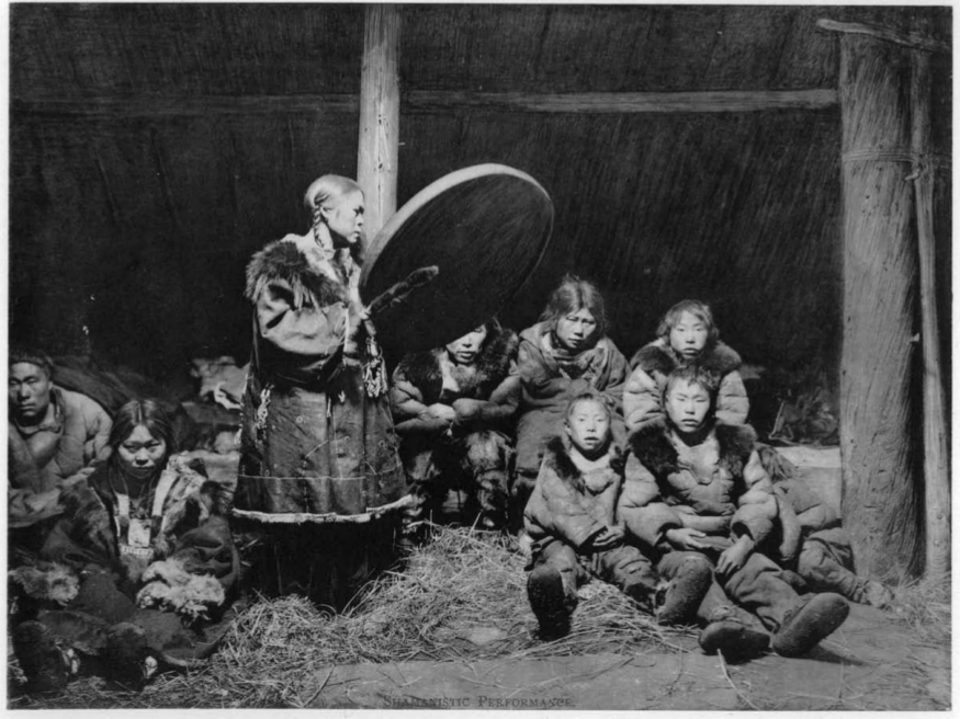 Koryak shaman woman